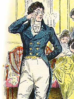 Detail of C. E. Brock illustration for the 1895 edition of Jane Austen's novel Pride and Prejudice (Ch. 18)